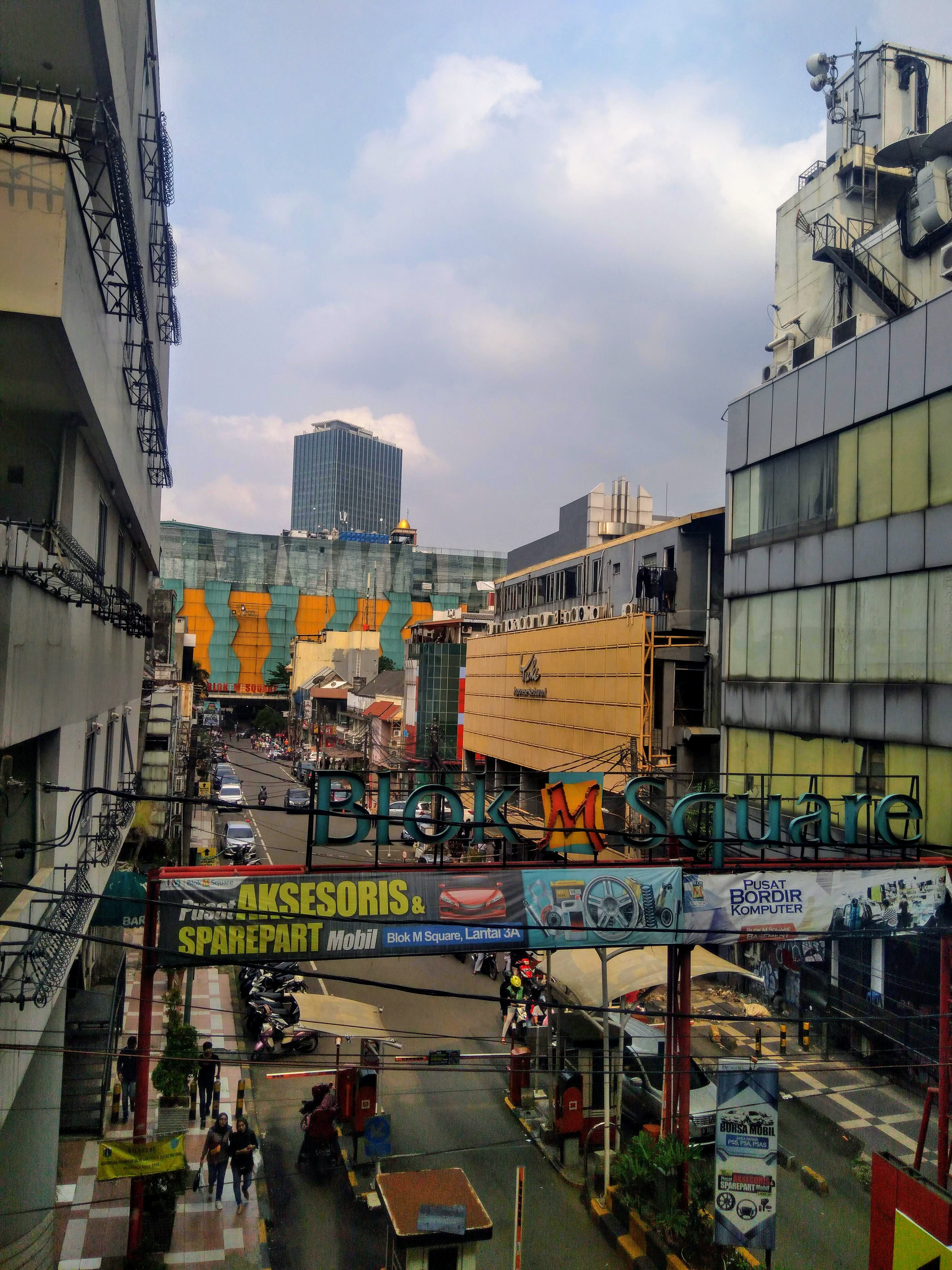 Melawai Street at Blok M, Jakarta